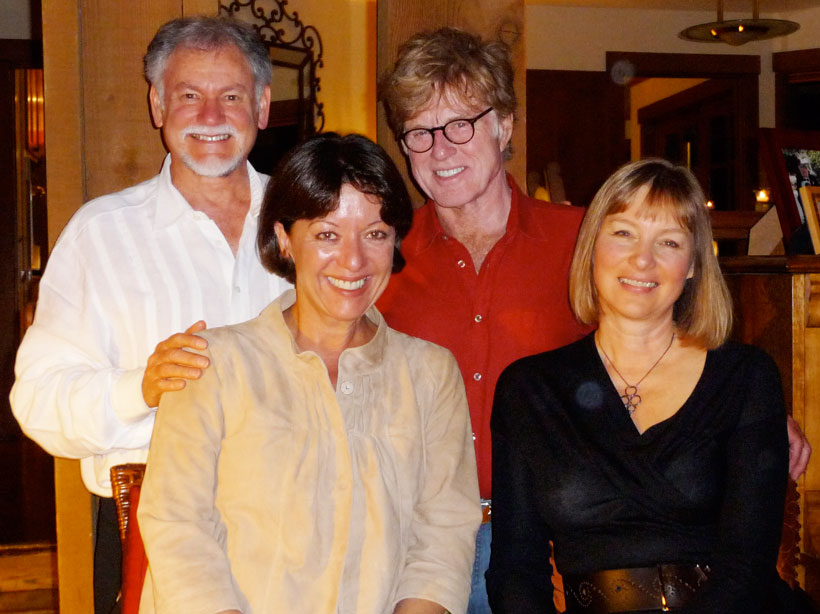 Dr. Warren Farrell and his wife with Robert Redford and wife at Farrell's home in California